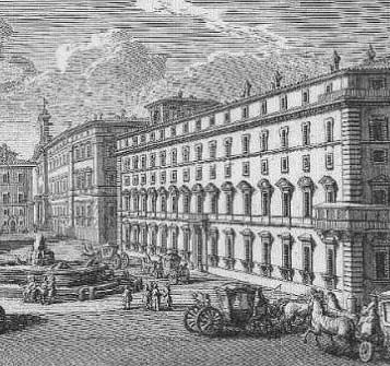 Palazzo Chigi, etching by Giuseppe Vasi, 18th century